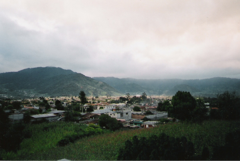 Personal photo taken while in Guatemala. Photo of the City of San Marcos, Guatemala.